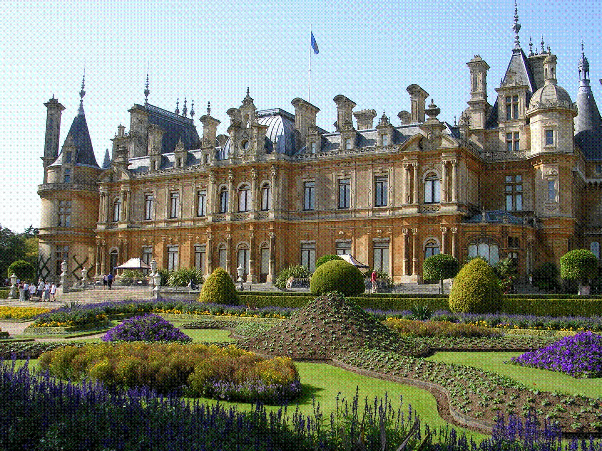 Photograph of the garden front of Waddesdon Manor, Buckinghamshire. Photographed by uploader 10 IX 06. Giano